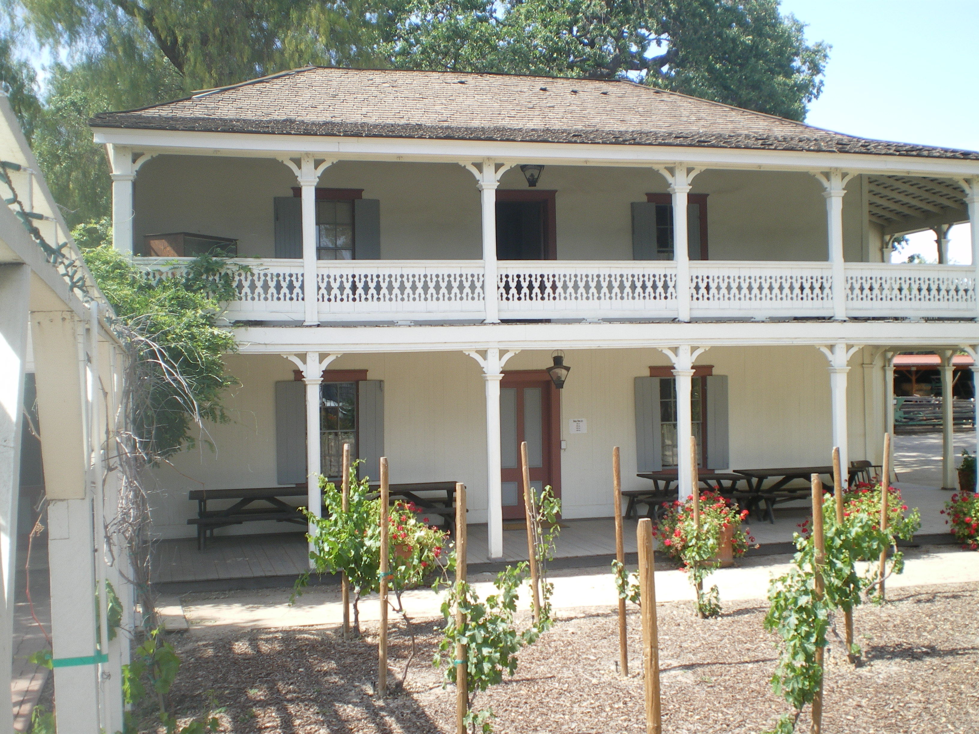 Leonis Adobe — in Calabasas of the western San Fernando Valley, Southern California.